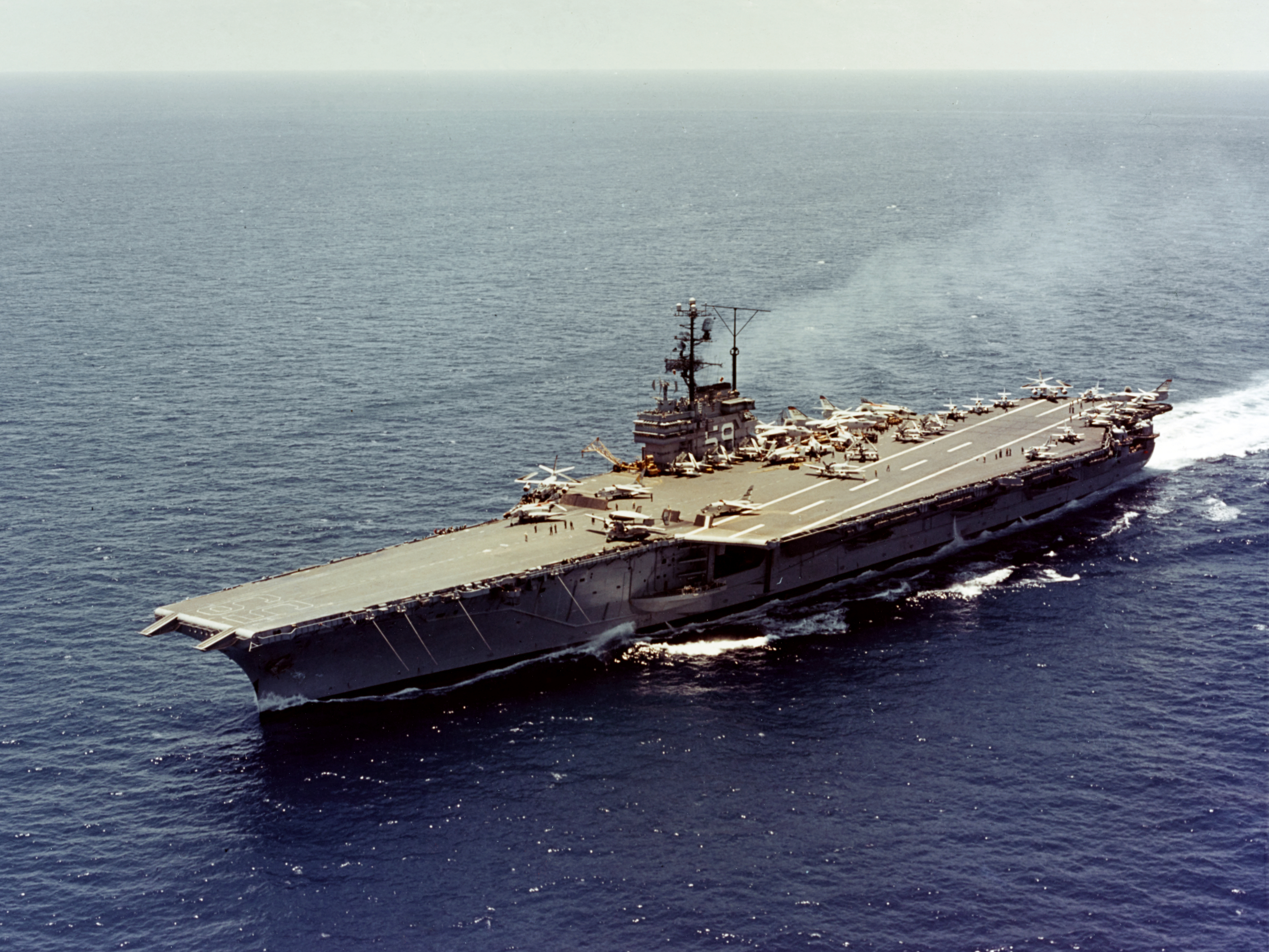 The U.S. Navy aircraft carrier USS Forrestal (CVA-59) underway at sea on 31 May 1962, while preparing for her fifth deployment. Forrestal, with assigned Carrier Air Group 8 (CVG-8) was deployed to the Mediterranean Sea from 3 August 1962 to 2 March 1963. Note that the carrier has McDonnell F4H-1 Phantom II jet fighters of Fighter Squadron 74 (VF-74) "Be-Devilers" in her air group. This was the first operational deployment of the Phantom II.